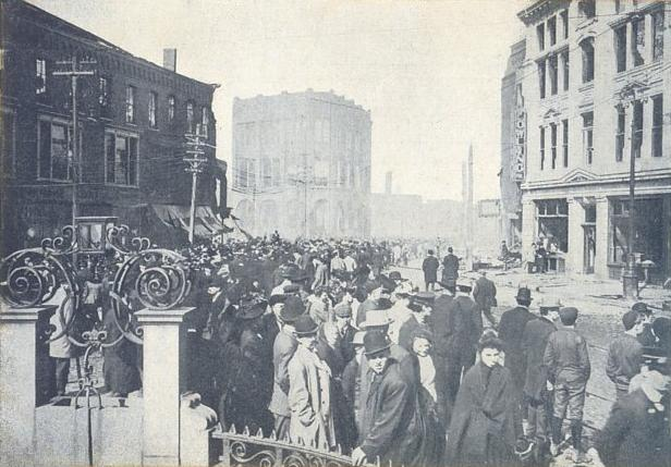 After the big fire of April 12, 1908, Chelsea, MA; from a postcard published by N. E. Paper & Stationary Co., Ayer, Massachusetts. This shows Chelsea Square looking north up Broadway, with Chelsea Trust Co. Building in center, and Odd Fellows' Building at right.